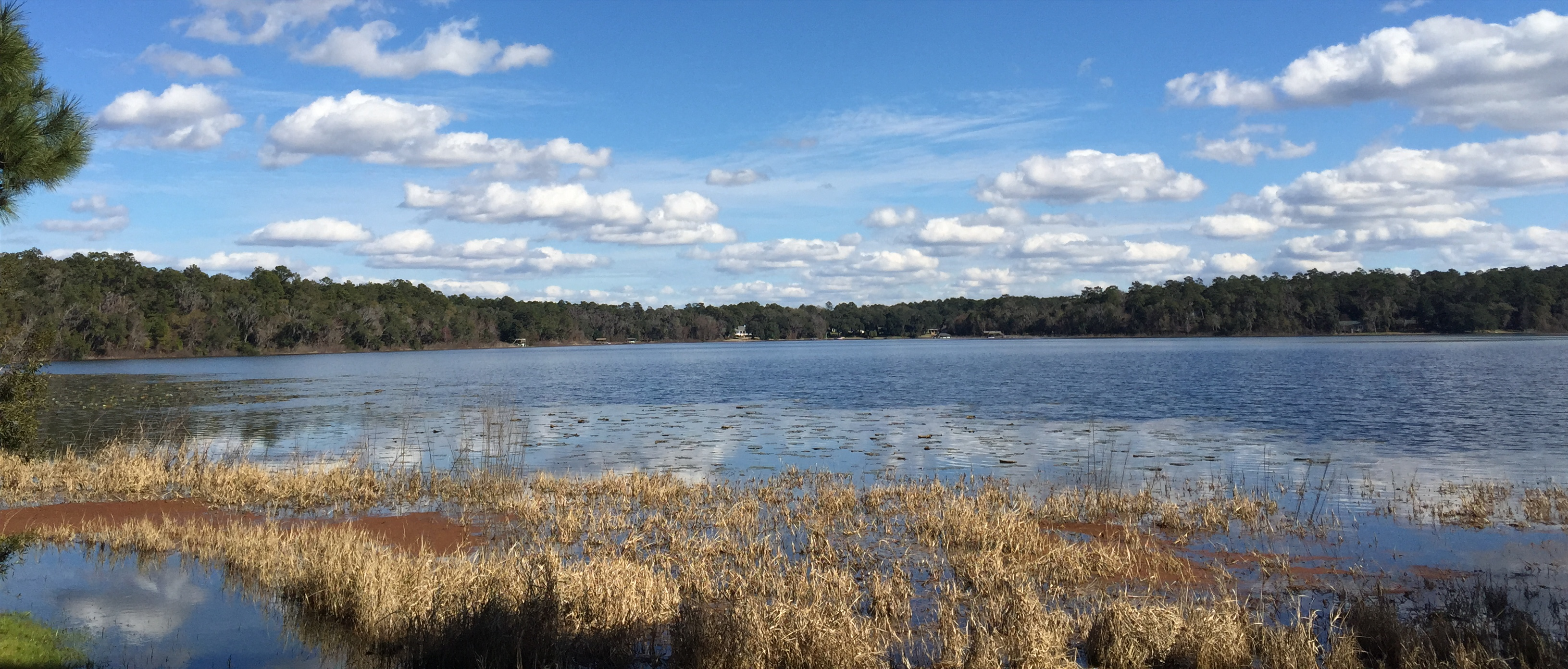 Photo of Lake Hall taken from Maclay Gardens